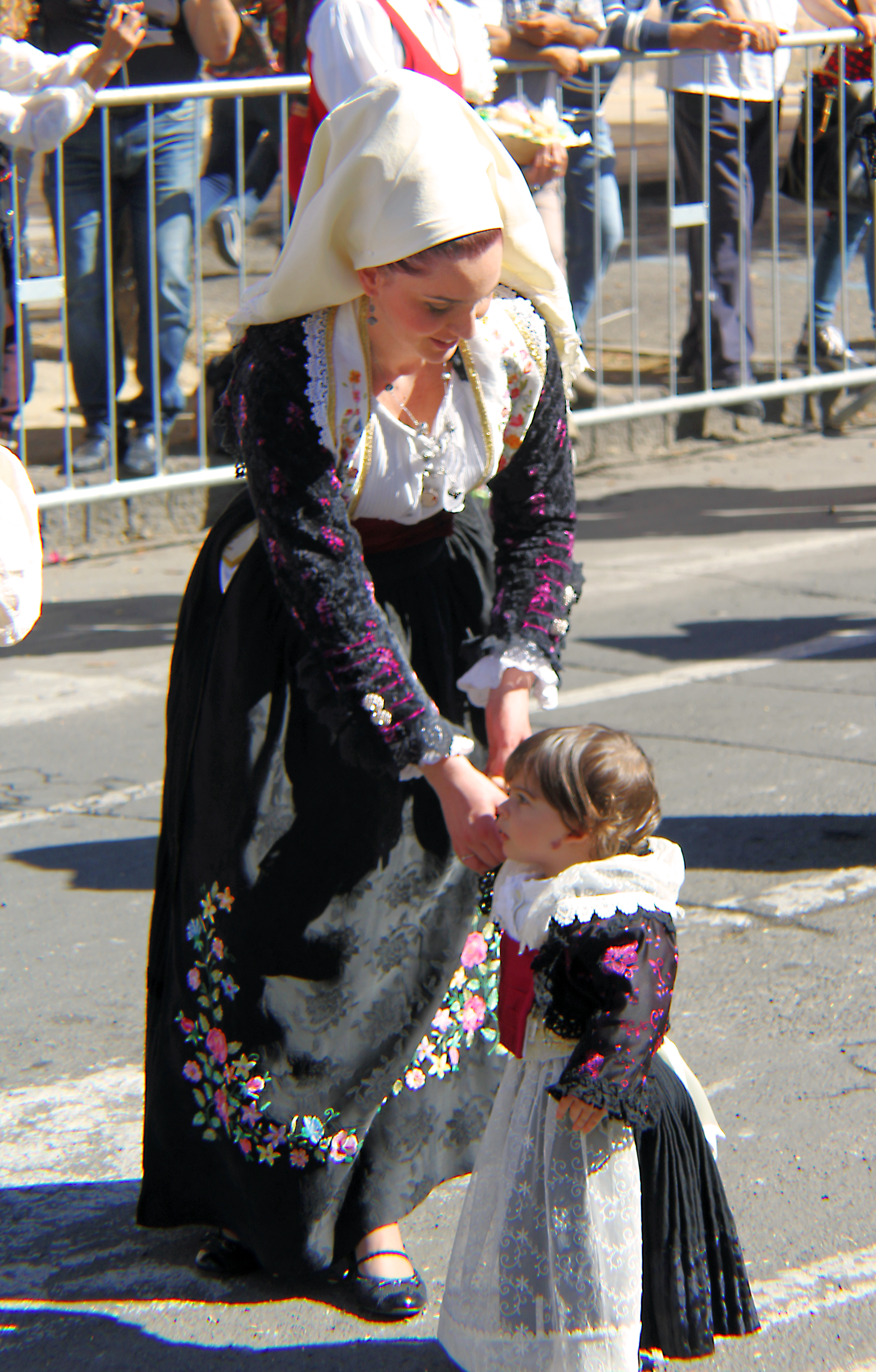 Sardinian Cavalcade Festival, 2016 Folk Costumes of Sardinia